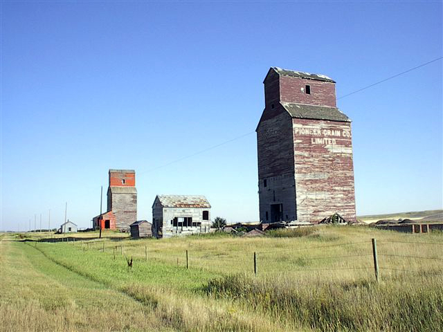 Abandoned grain elevators in the ghost town of Neidpath, located in southwest Saskatchewan, Canada.